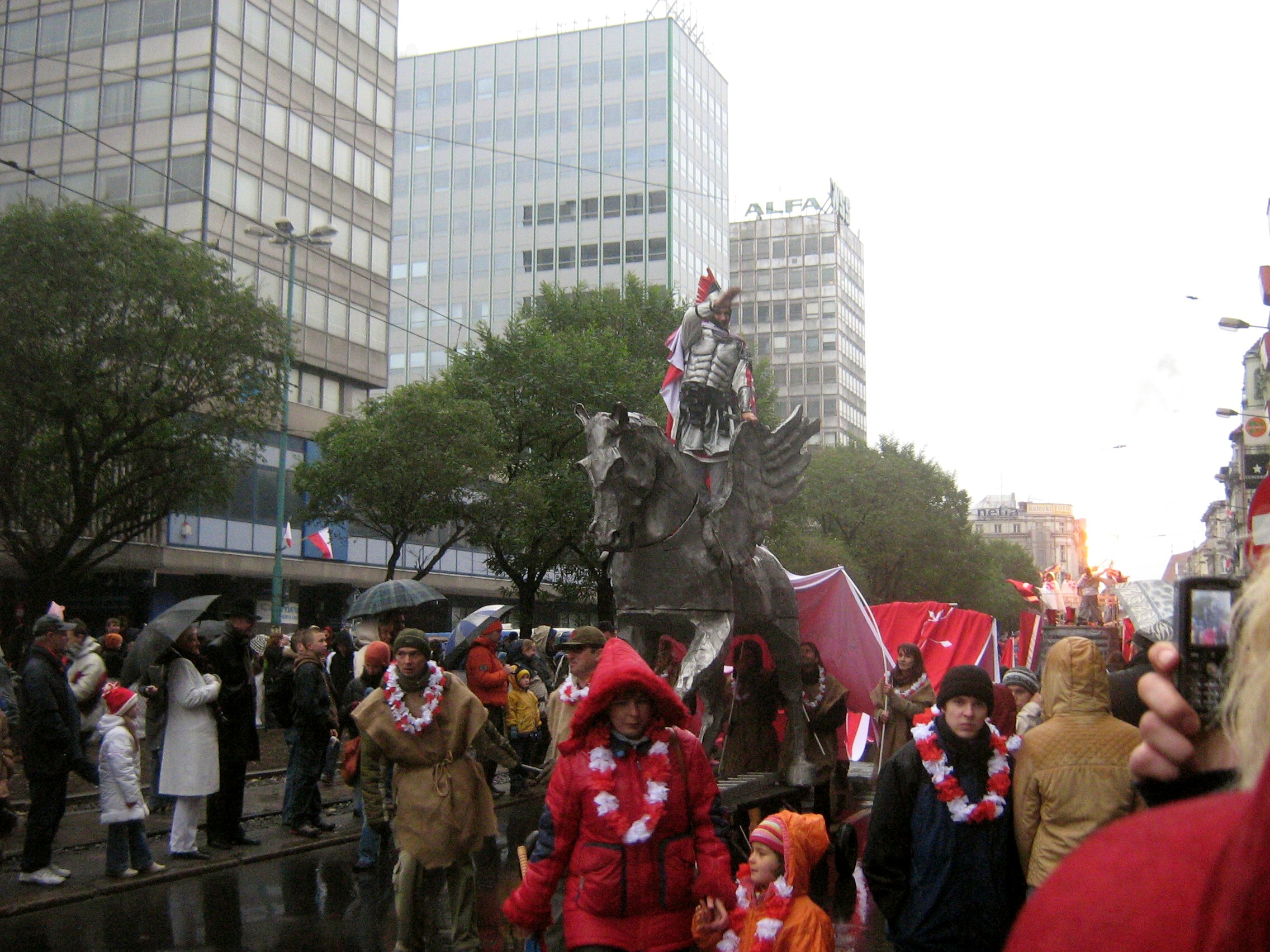 The festive procession 2006 - Sankt Martin.